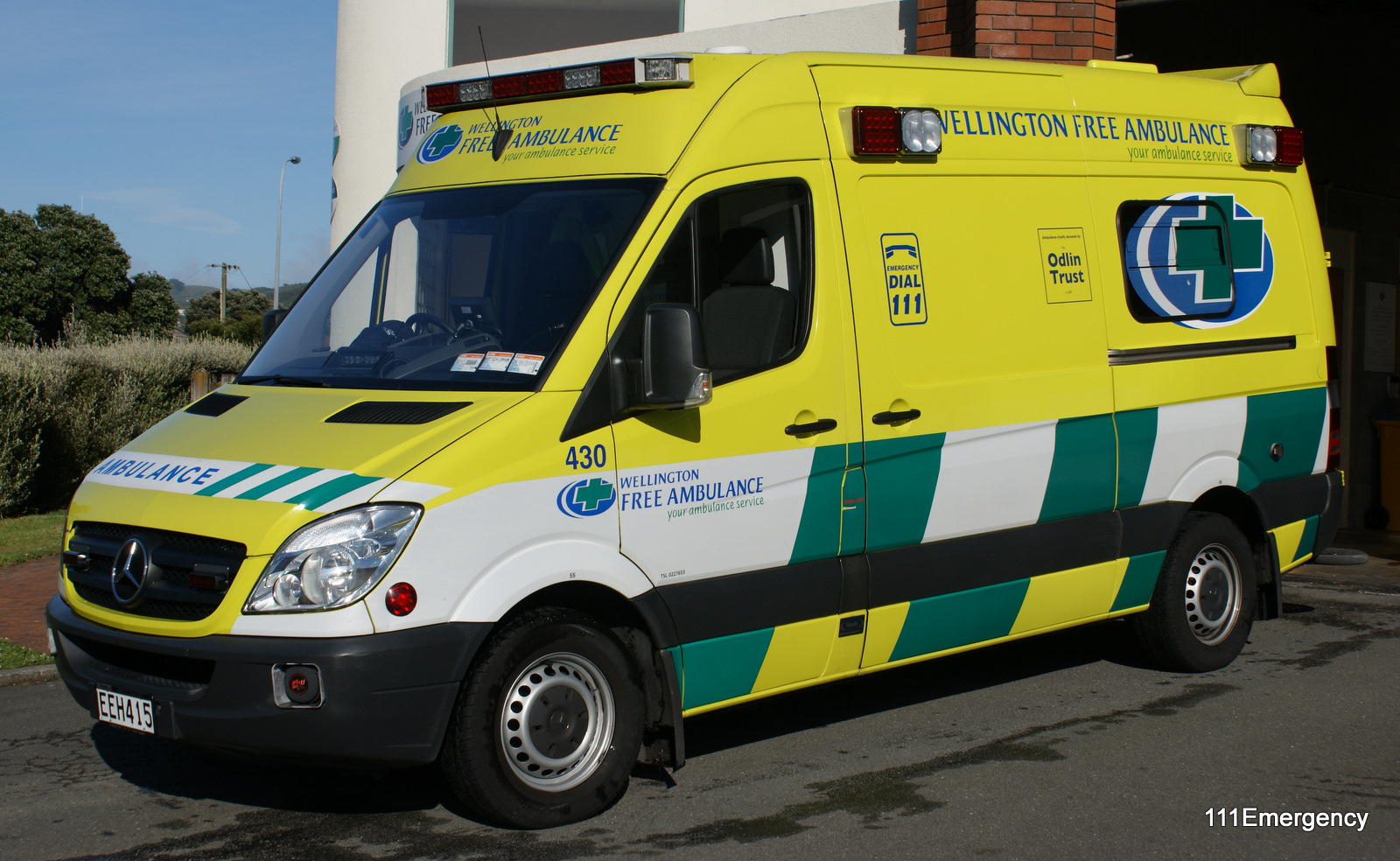 Wellington Free Ambulance 430 - Mercedes Sprinter at Lower Hutt Ambulance Station